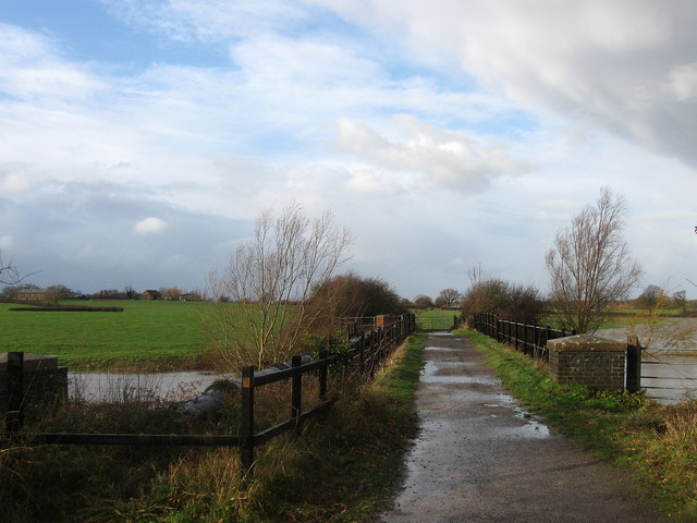 Betley Bridge Former railway bridge now carrying the Downslink long distance footpath over the River Adur. Despite waht the OS 1:50,000 says, all the bridge is actually in this grid square.